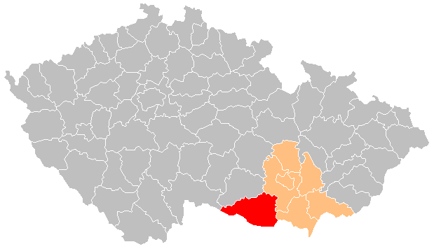 Znojmo District within South Moravia Region. Current borders of districts since January 1, 2007.